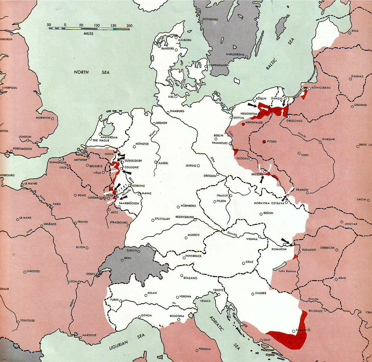 Map of the front against Germany: This map is taken from the source "Atlas of the World Battle Fronts in Semimonthly Phases to August 15th 1945: Supplement to The Biennial report of The Chief of Staff of the United States Army July 1, 1943 to June 30 1945 To the Secretary of War". (See Cover, Forward and Map details)